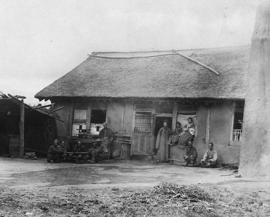 Fragment of original photo by Vladimir Lanin (Vladivostok, Russia), depicting a typical Fanza (farm-house) of Ussurian Chinamen